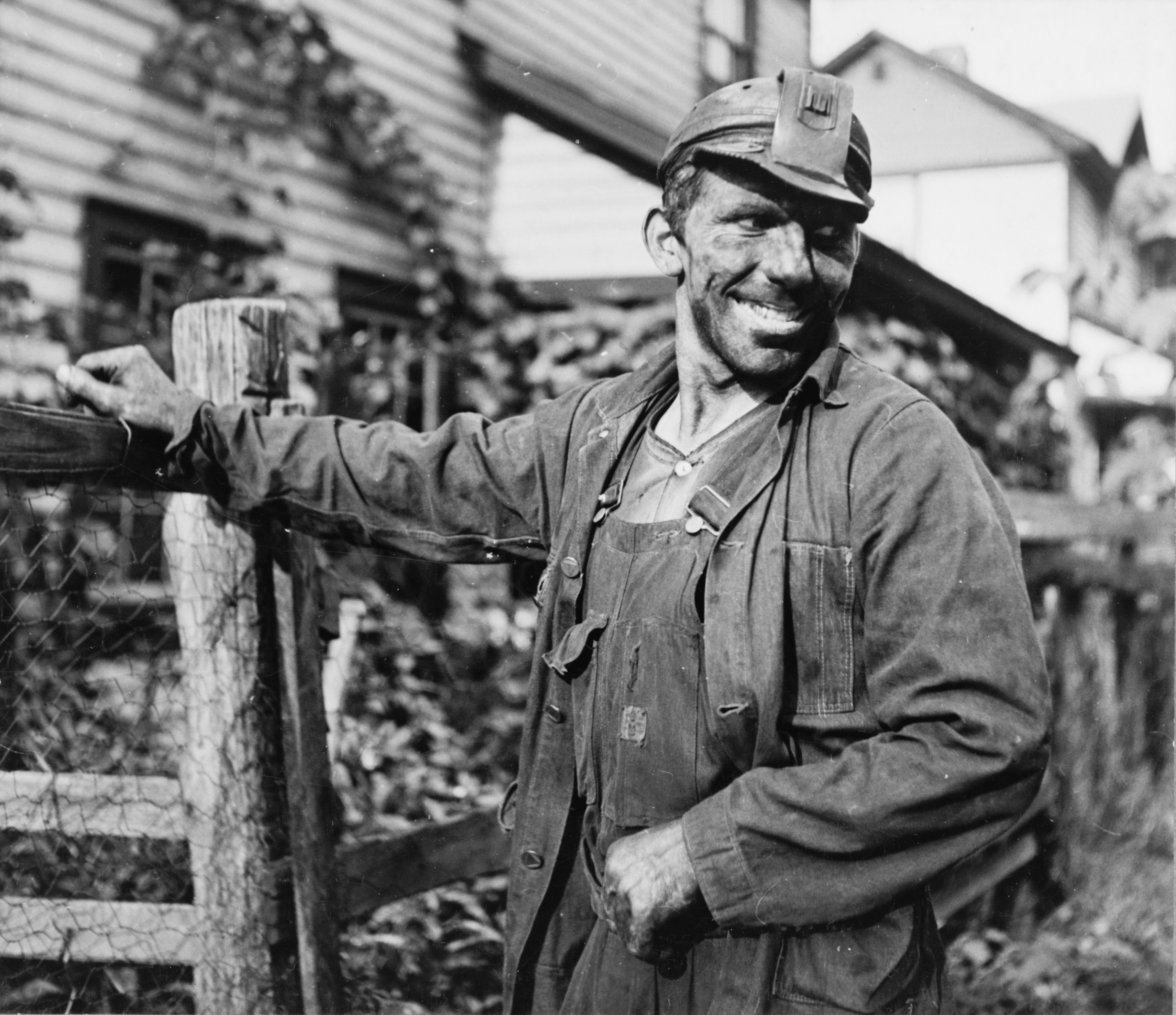 Coal miner (Polish) — Capels, McDowell County, West Virginia